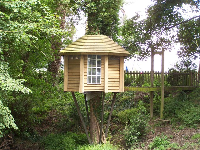 The Ultimate tree-house, with suspension bridge access Every child should have one (And why can't every grown-up, too?)